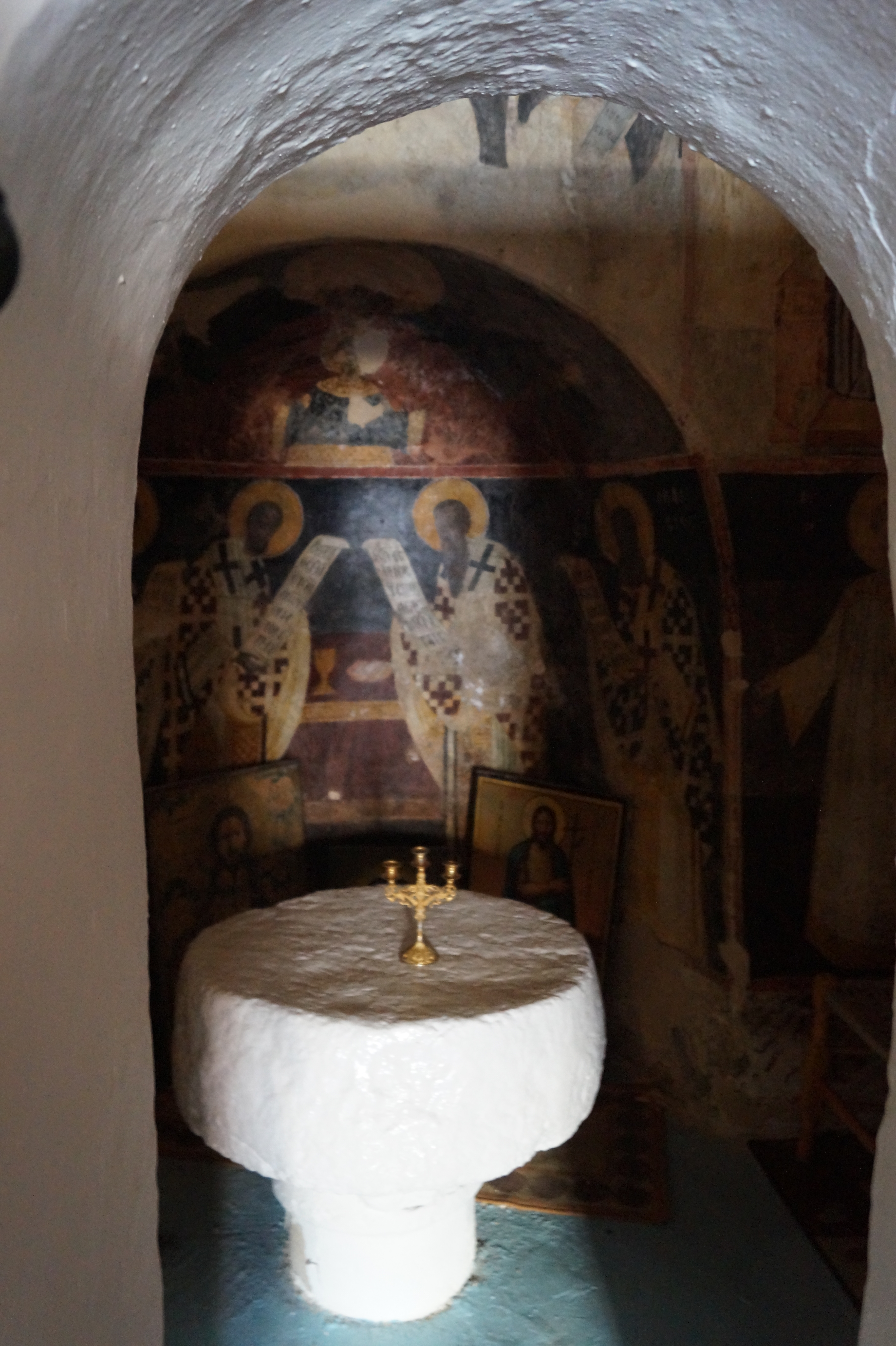 Nea Epidavros, Argolida, Greece: Church of the Taxiarches. Fresco in the sanctuary.